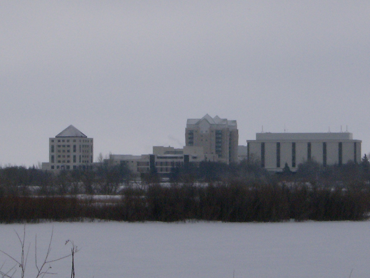 University of Regina campus, seen from the Saskatchewan Science Centre. Seen in between is the frozen Wascana Lake.